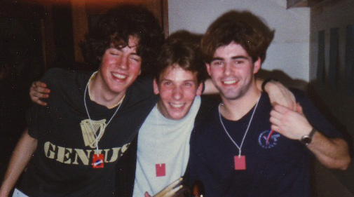 Gary Lightbody, Michael Morrison and Mark McClelland photographed just after playing their first gig at Dundee University Students' Association, Christmas 1994